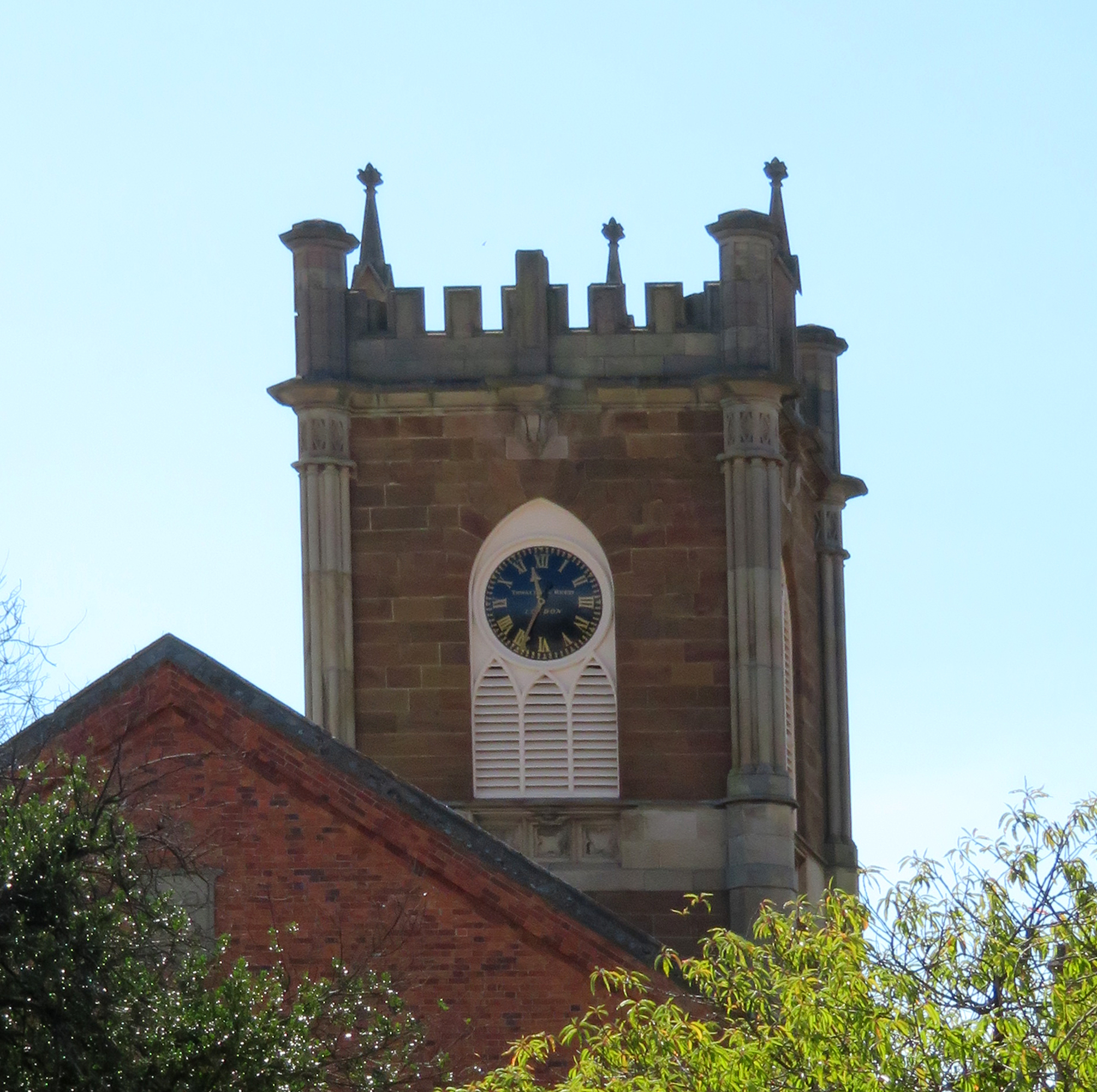 St John's Anglican Church Clock